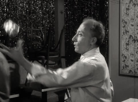 Leonardo Cimino in Mad Dog Coll - trailer (cropped screenshot)